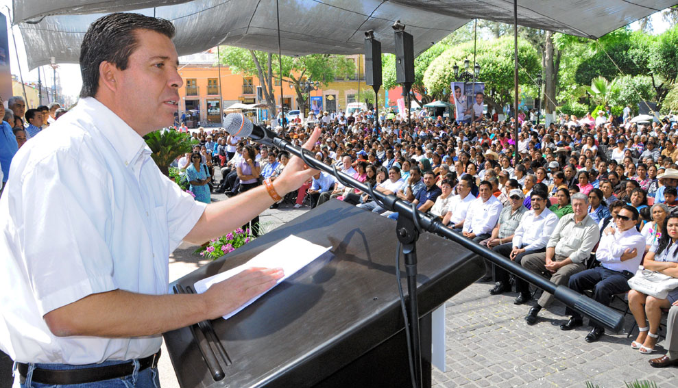 Miguel Márquez en Dolores Hidalgo, Guanajuato.